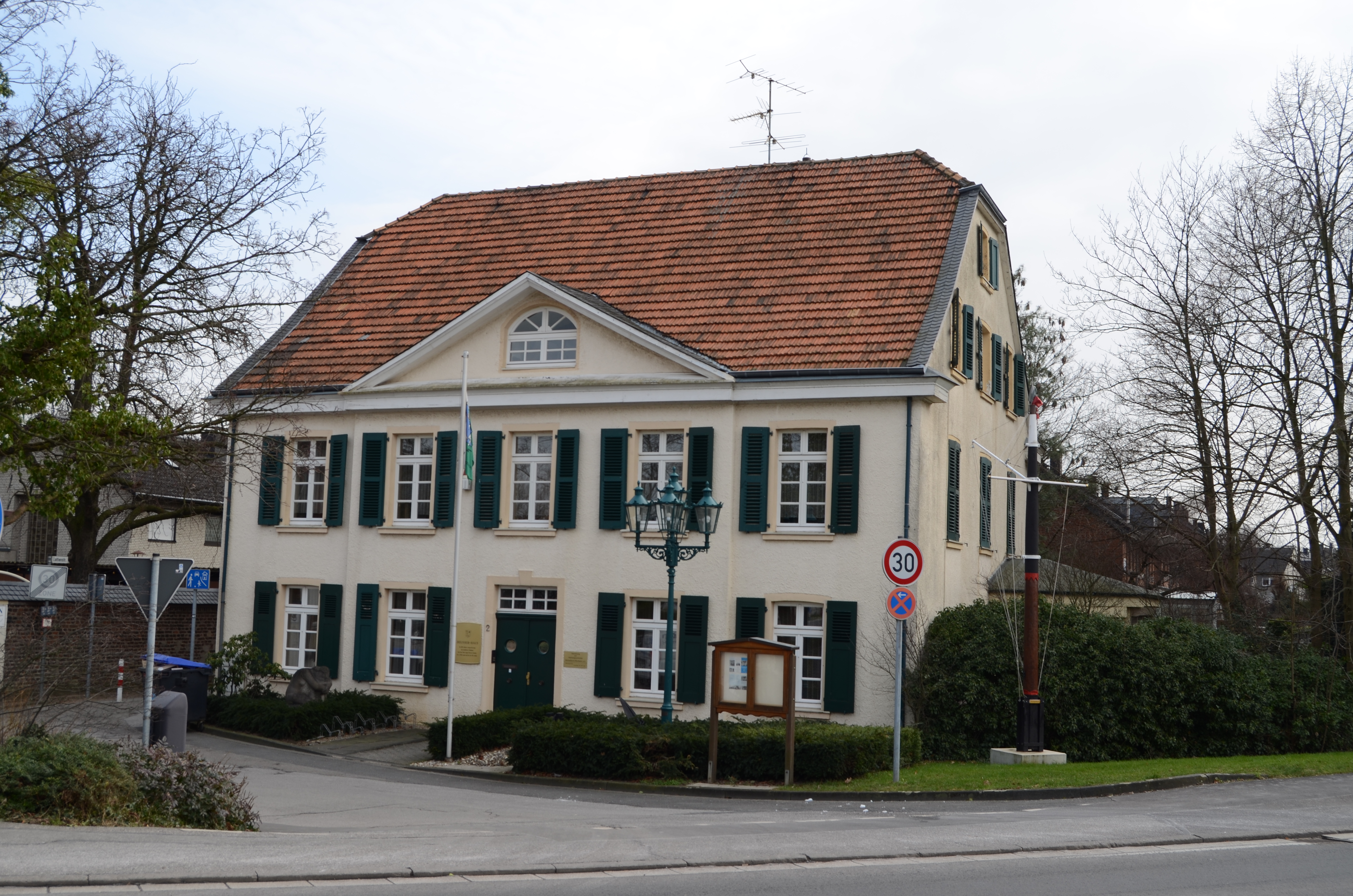 Monheim am Rhein (North Rhine-Westphalia, Germany) – manor house Deusser-Haus This image shows a heritage building in Germany, located in the North Rhine-Westphalian city Monheim am Rhein. This photograph was taken with a Nikon D7000